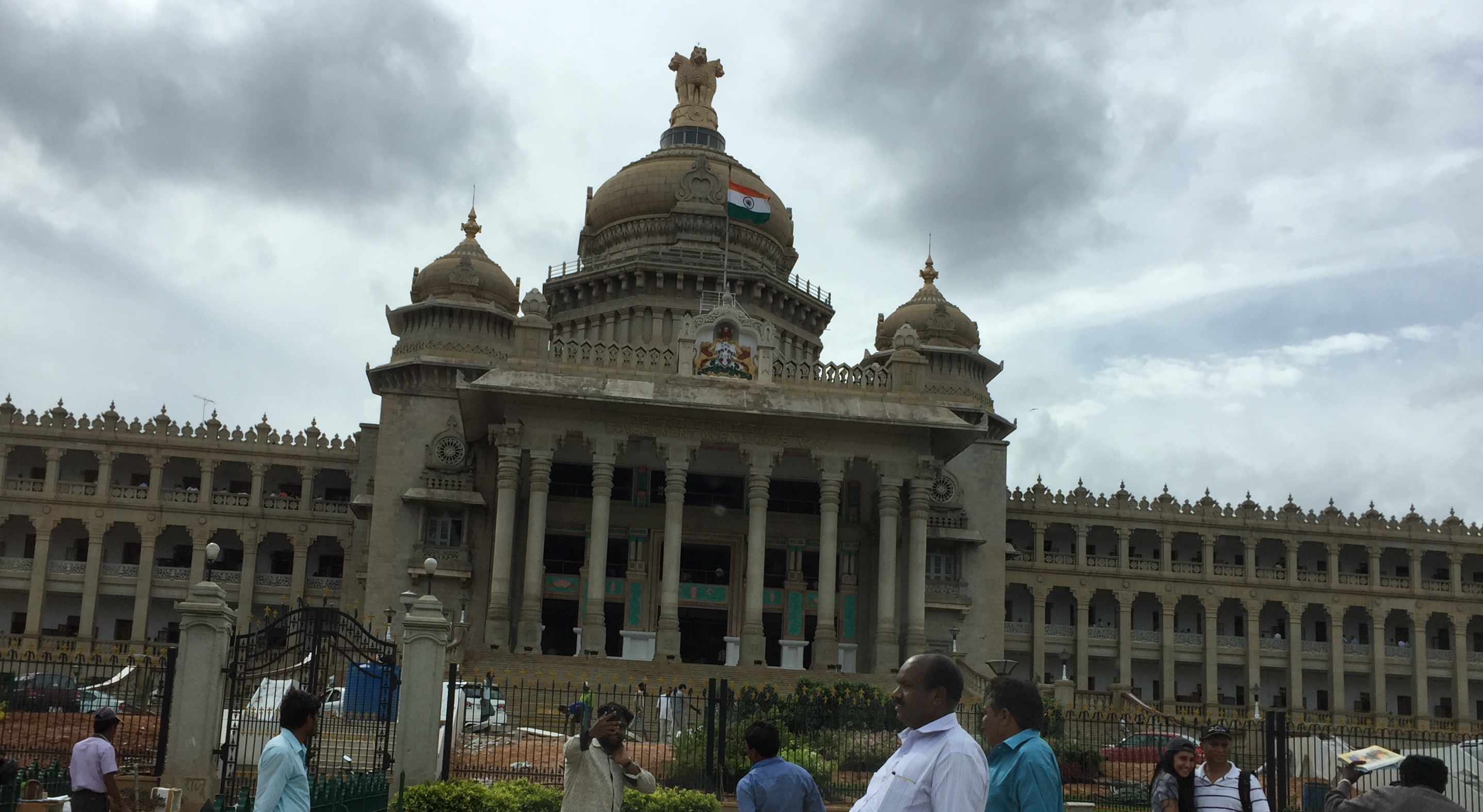 Structure of vidhan sabha at banglore